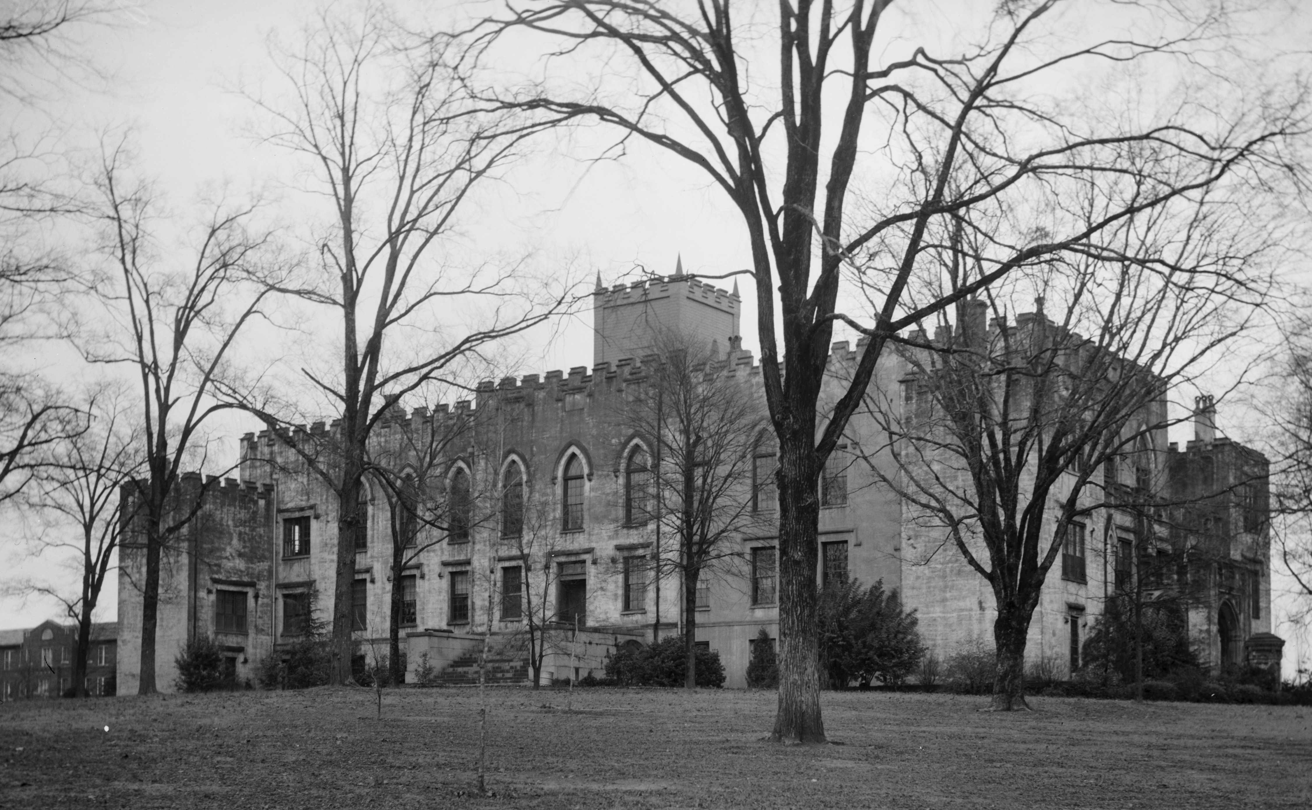 Old State Capitol, Milledgeville (Baldwin County, Georgia) - cropped